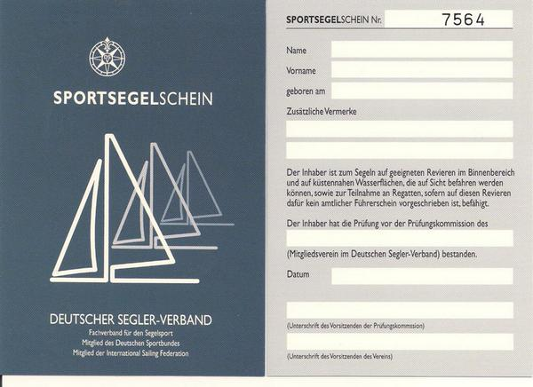 Sportsegelschein